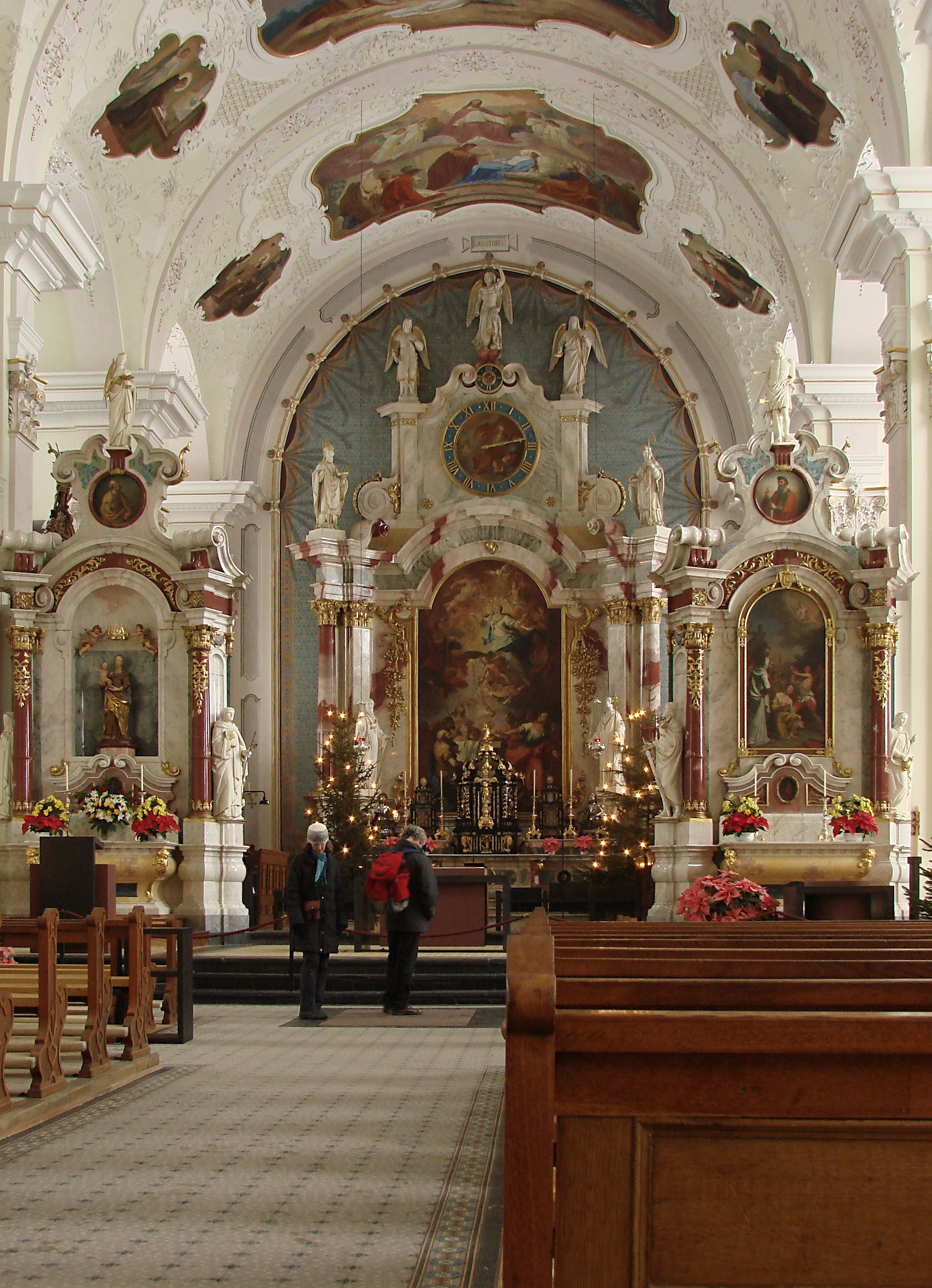 Engelberg, Switzerland, interior of the monastery church